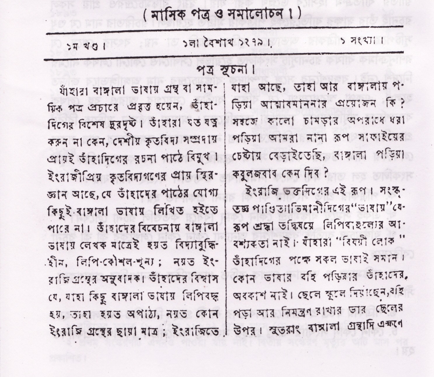 It is a page of বঙ্গদর্শন পত্রিকা published from India since 1872